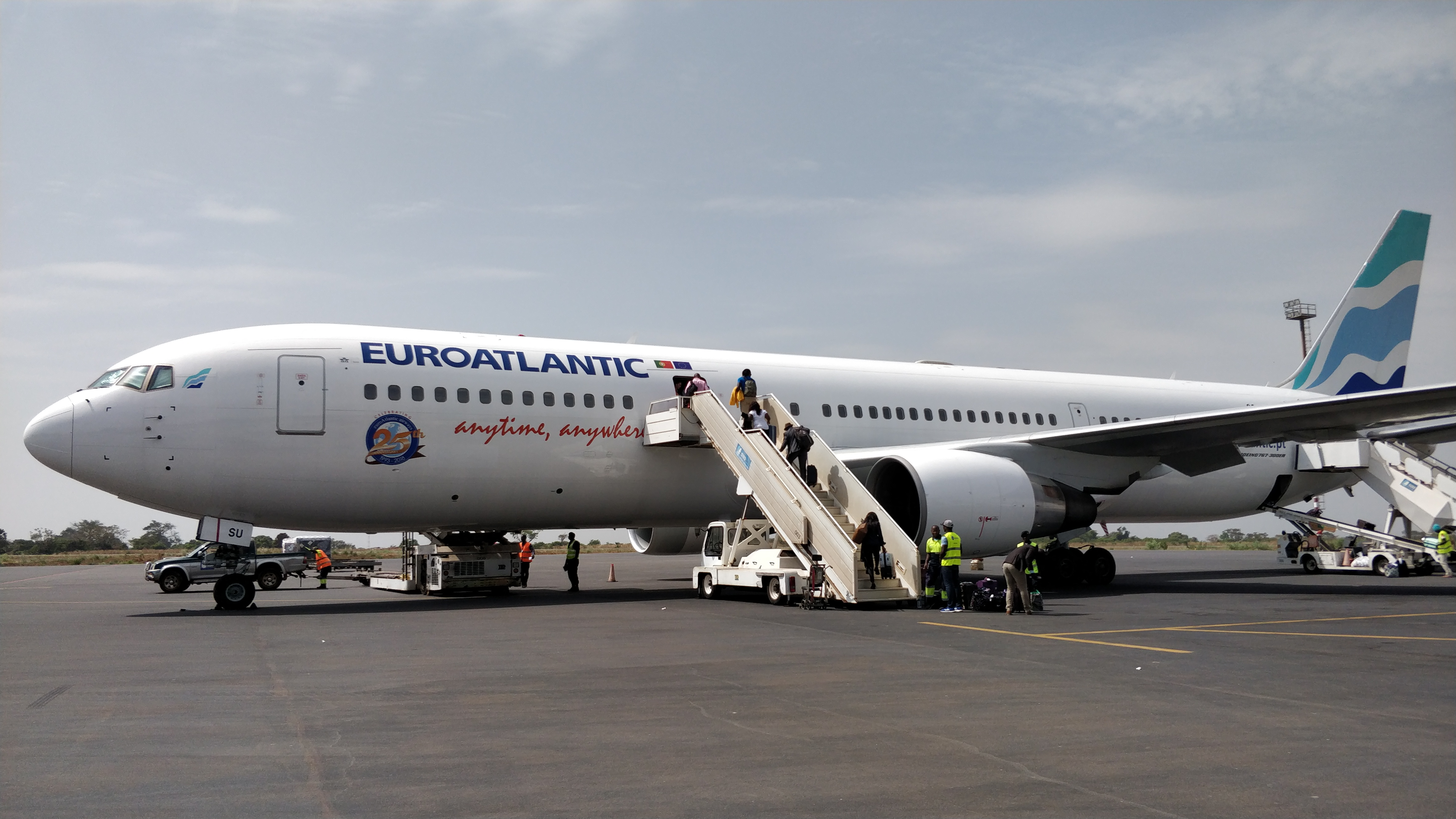 EuroAtlantic Airways plane (CS-TSU) at Bissau airport, ready for departure to Lisbon; Bissau, Guinea-Bissau